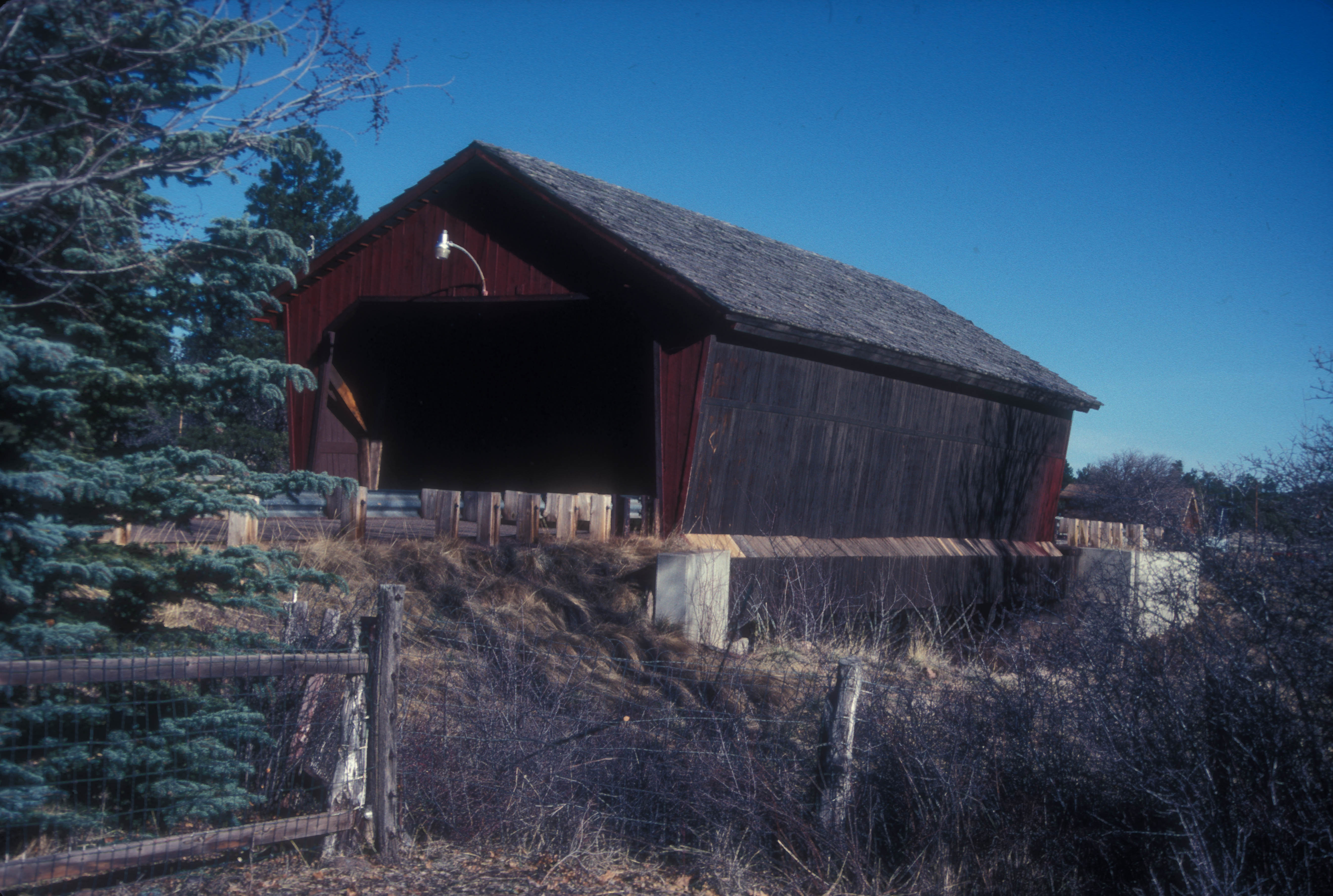 PINEDALE IN NAVAJO COUNTY; 75' 1976 STRINGER; ONLY COVERED BRIDGE IN ARIZONA